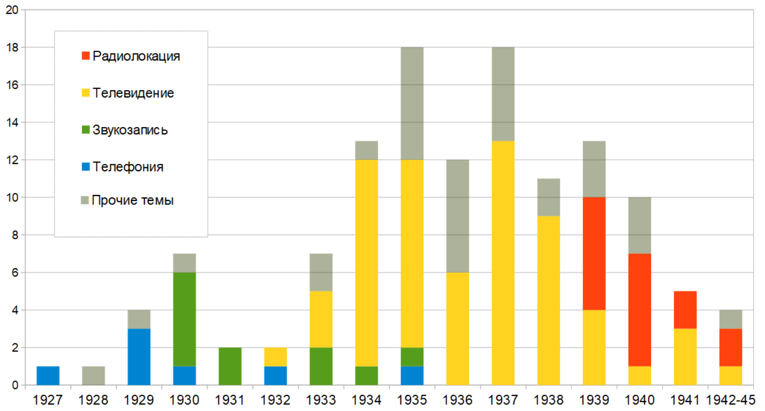 Timeline of A.D.Blumlein patents, by year of filing and by subject area (very broadly), as listed in appendix 2 in R. W. Burns (2000) The Life and Times of A D Blumlein